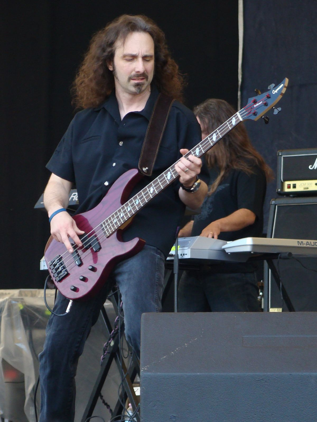 Michael Lepond of Symphony X